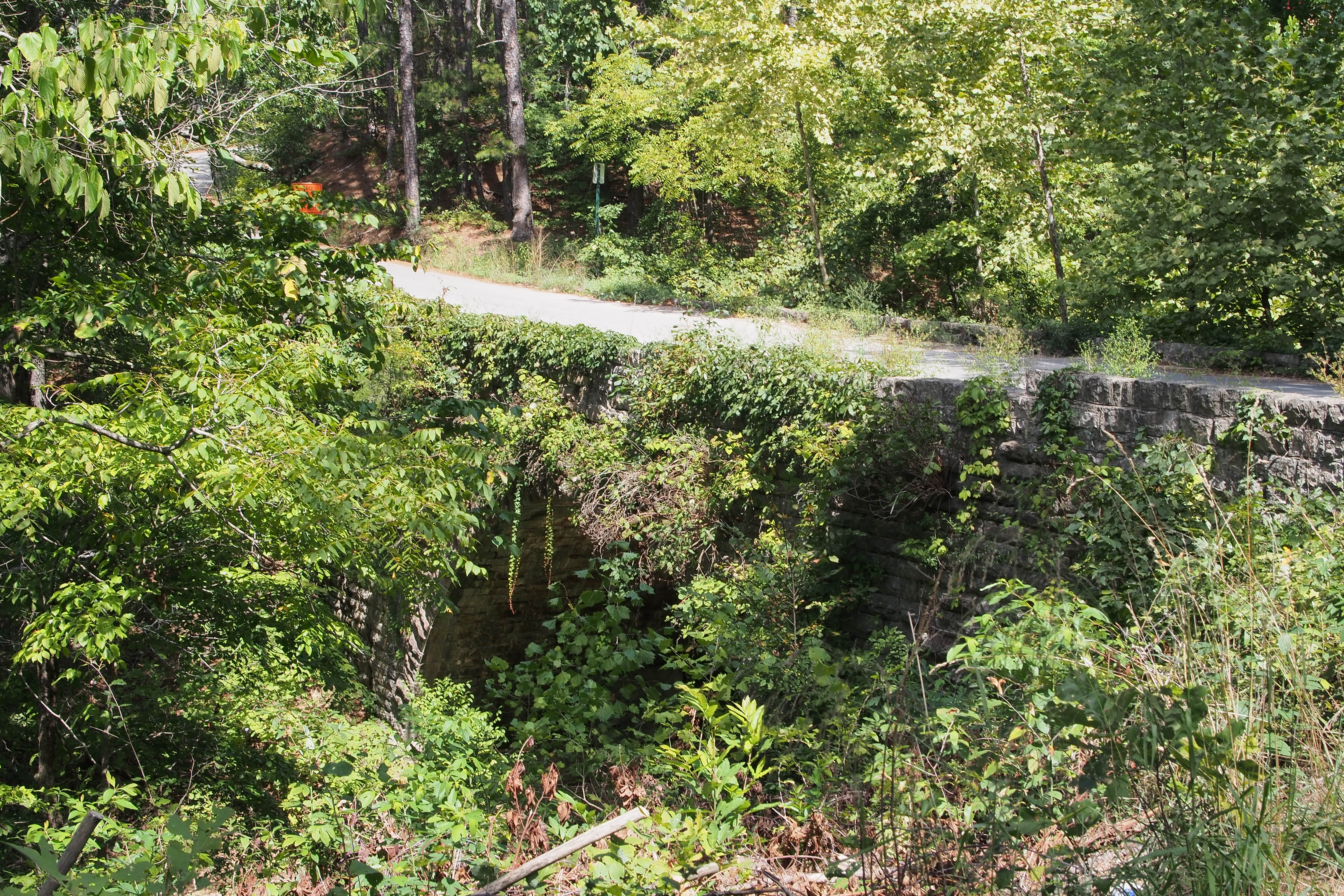 Sanitarium Lake Bridges Historic District Yes, this is the 1891 bridge. Completely overgrown. The other smaller bridge is about the same. Stone work is hard to see.